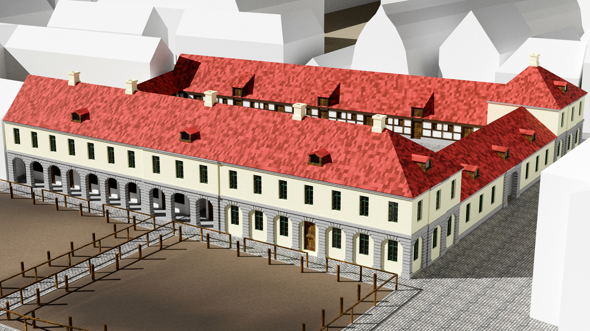 3D Model of the Stelzenkrug at the Ochsenplatz (today Alexanderplatz) in Berlin as of 1743. Based on the plan of Sur Intendent Georg Wenzeslaus von Knobelsdorff.